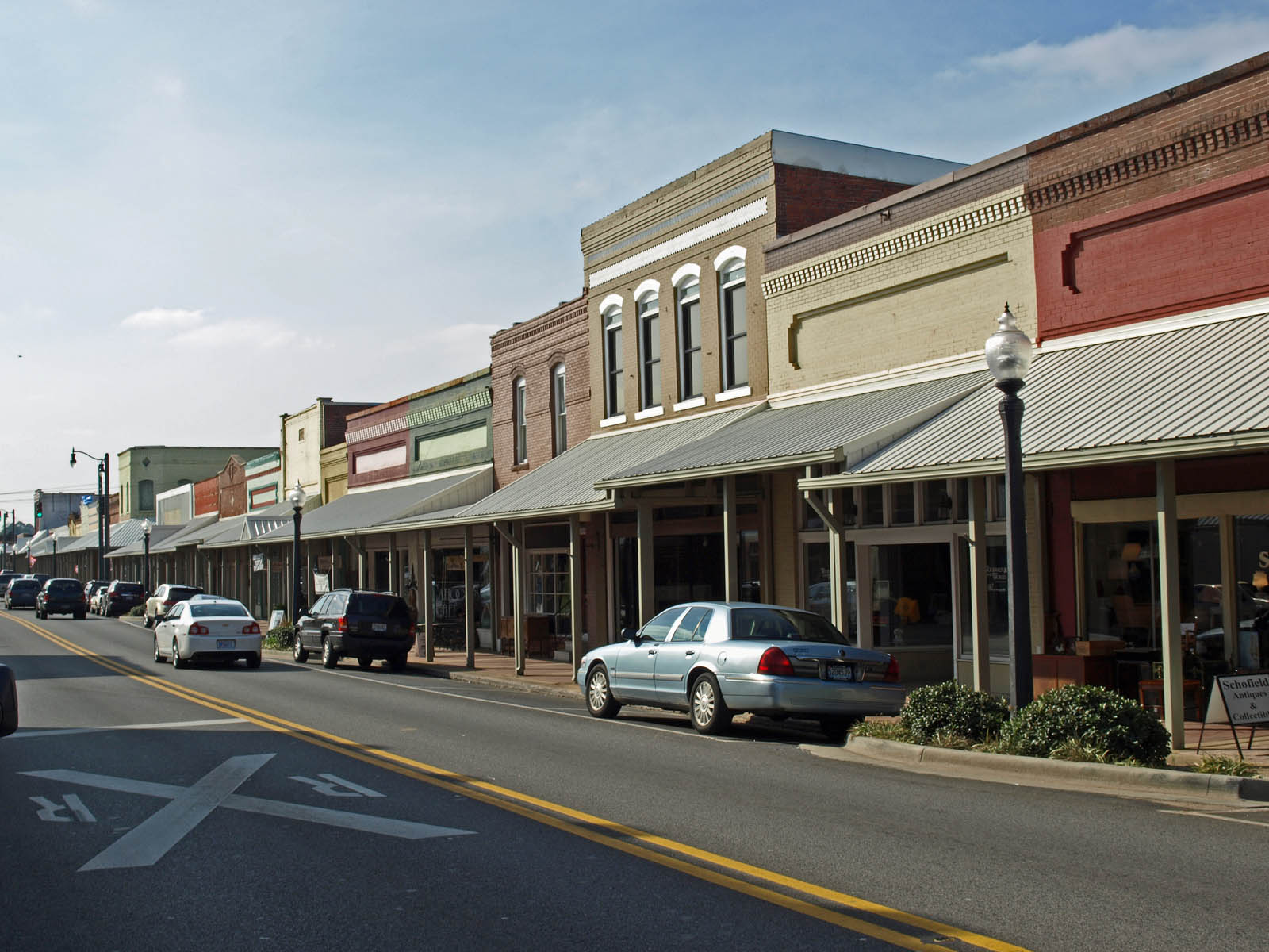 Buildings on the 100 block of Main Street in Hartselle, Alabama, part of the Hartselle Downtown Commercial Historic District